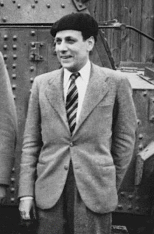 Claude Jeantet on the East front about 1943.